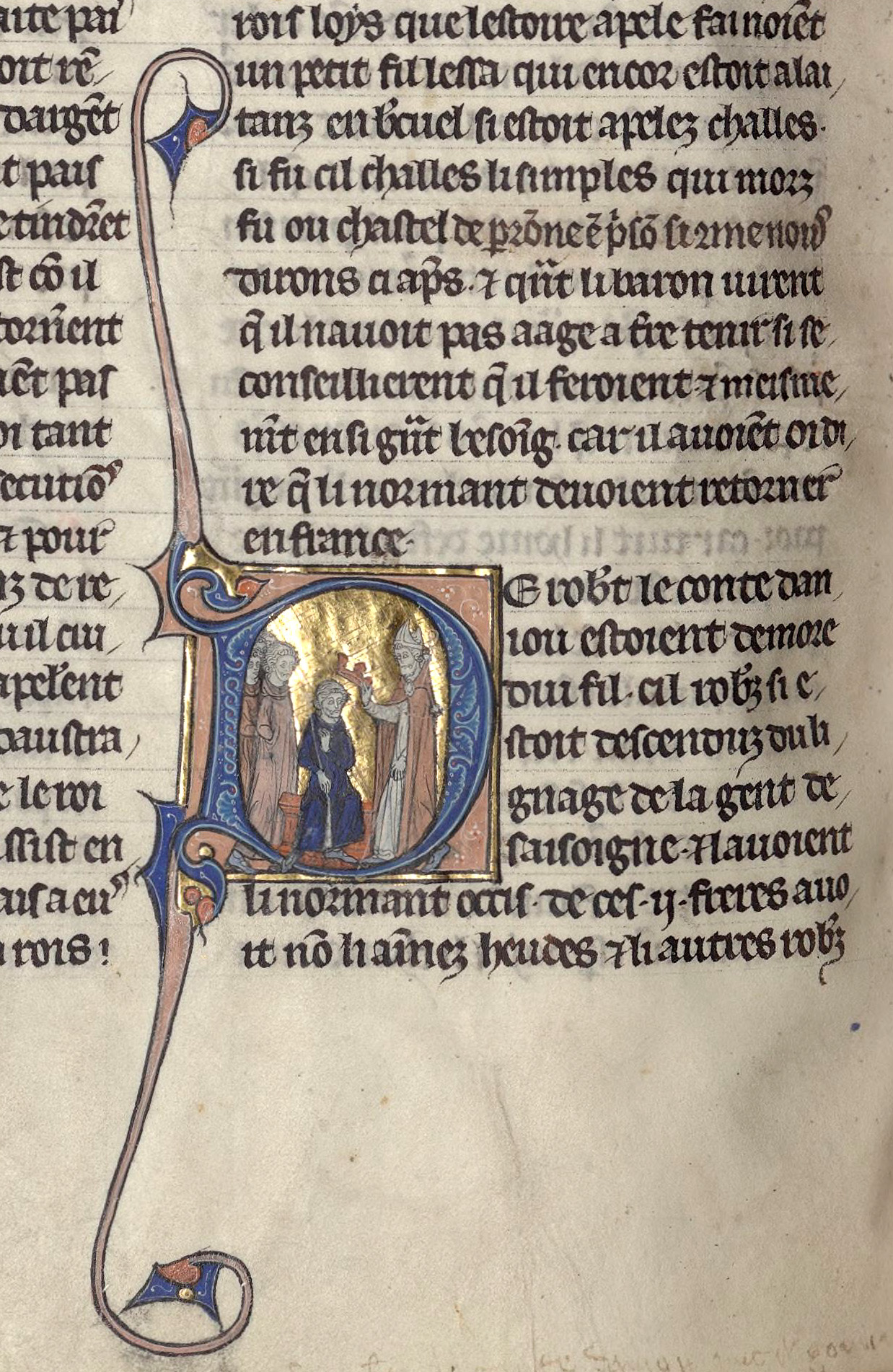 Coronations of Odo of France